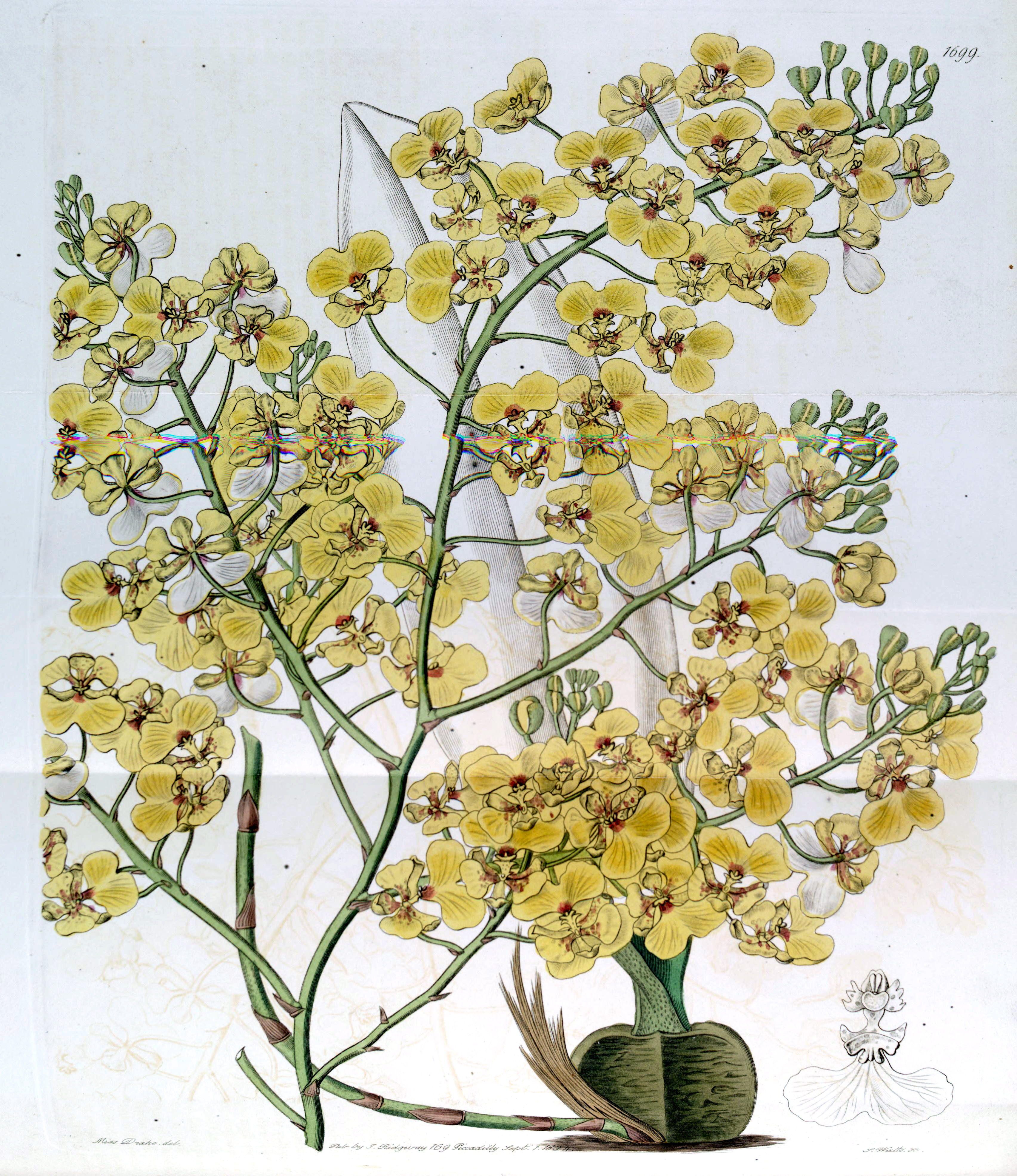 Chelyorchis ampliata (as syn. Oncidium ampliatum)